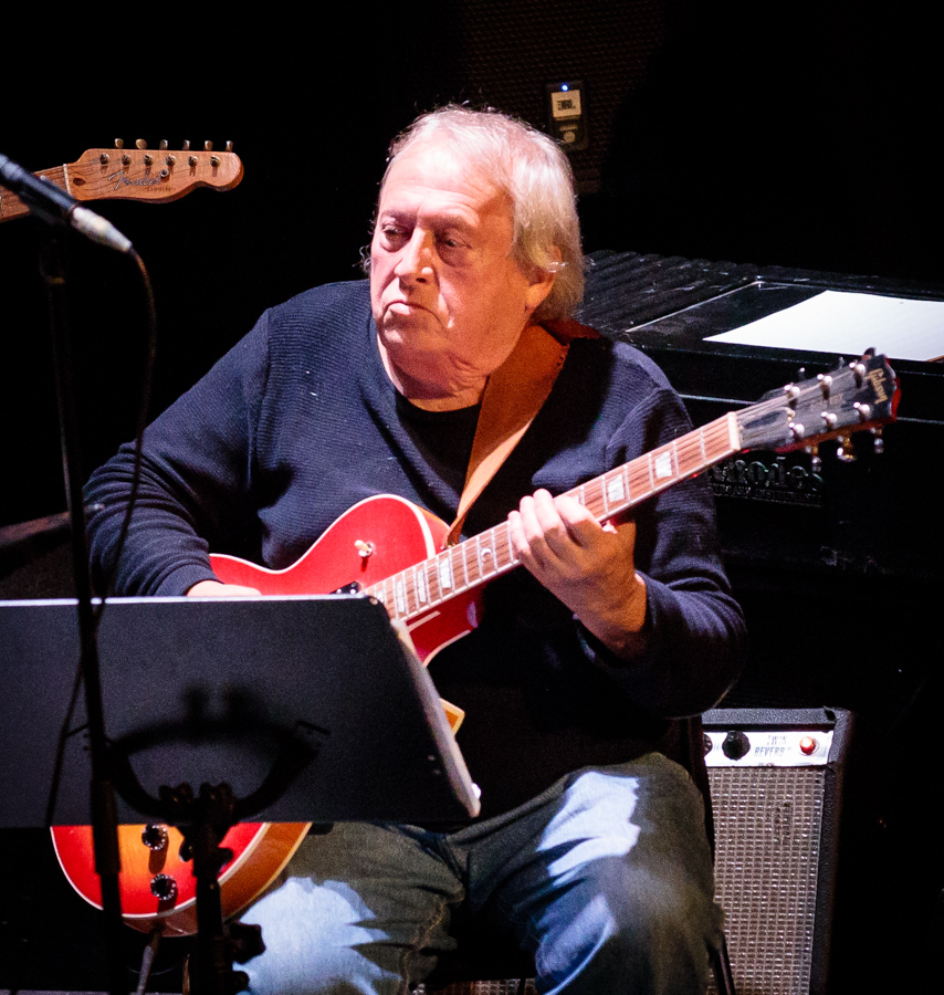 Erik Wesseltoft with The Organ Club «Club7 revival» at Cosmopolite in Soria Moria. The concert took place on 26. October 2017. Lineup: Little Earl Wilson (vocal), Susanne Fuhr (vocal), Calle Neumann (saxophone), Vidar Johansen (saxophone), Erik Wesseltoft (guitar), Kjell Larsen (guitar), Brynjulf Blix (organ), Miki N`Doye (percussion), Bugge Wesseltoft (organ), Sveinung Hovensjø (bass guitar), Bjørn Jensen (drums) and Charles Mena (drums).